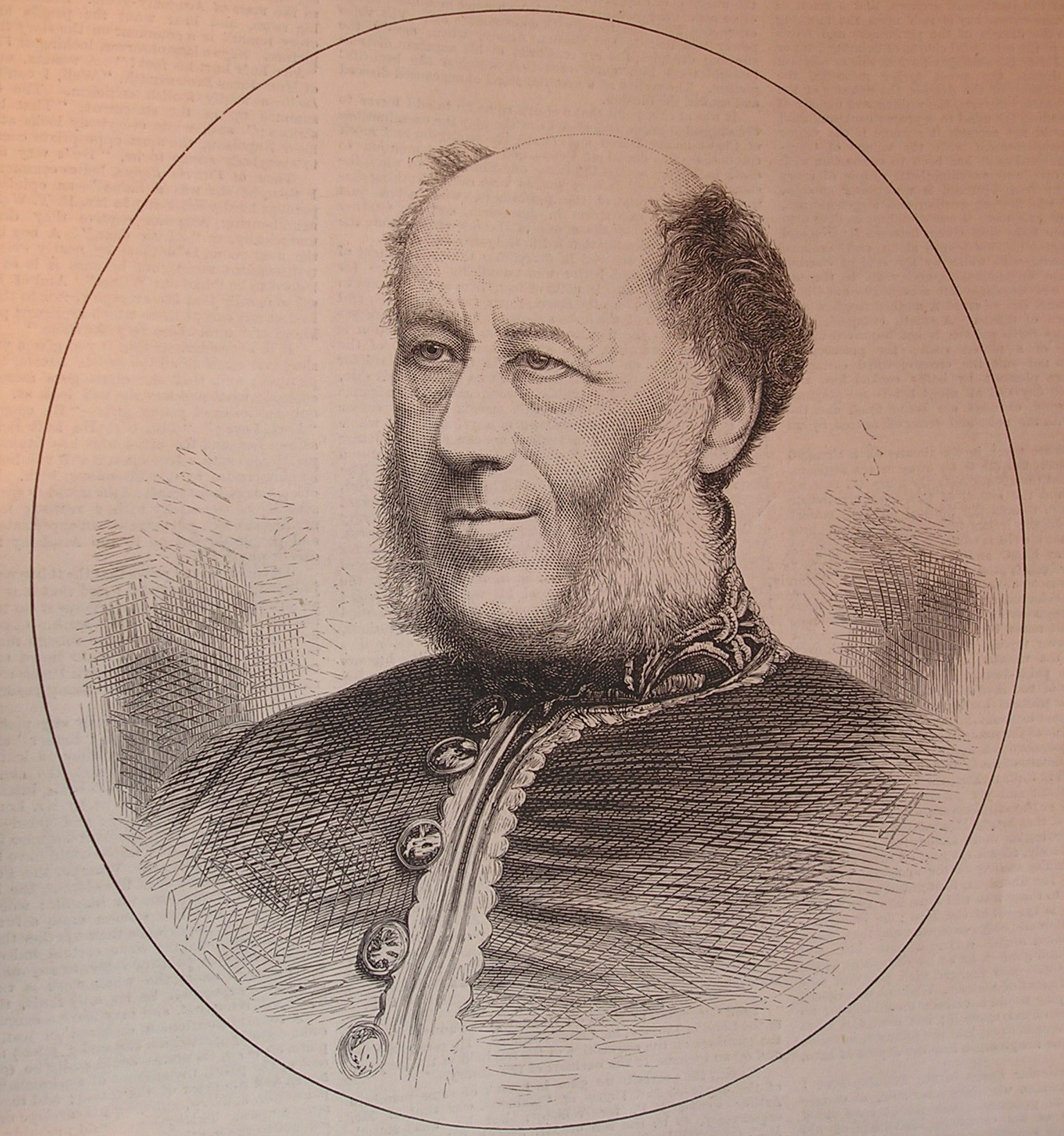 Picture of 19th century British playwright James Planché. Caption on original image reads 'The late Mr J.R. Planché, "Somerset Herald". From a photograph by the late John Watkins taken many years ago.'